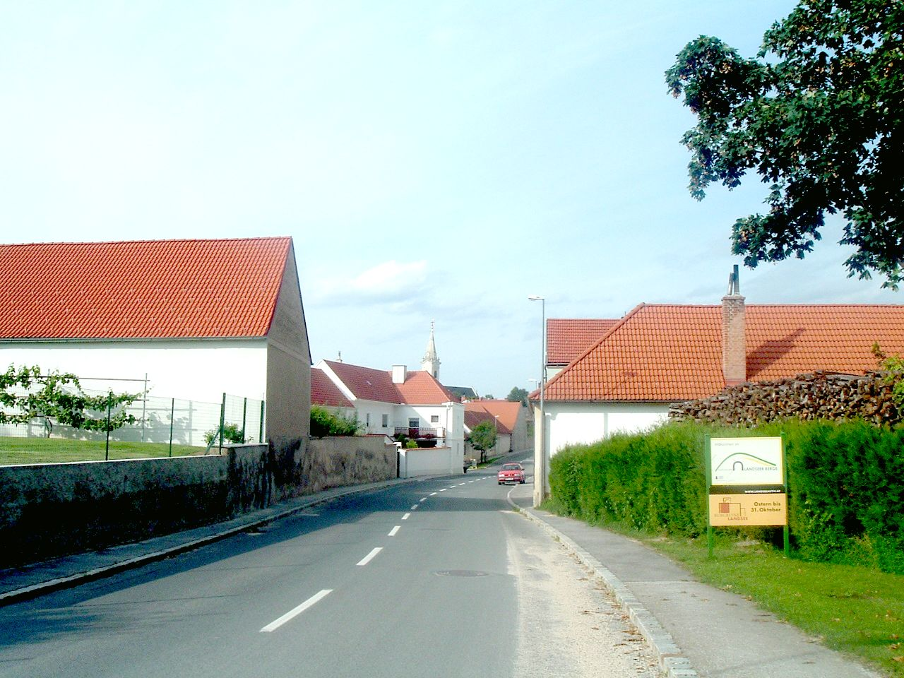 Drassmarkt (Vámosderecske)